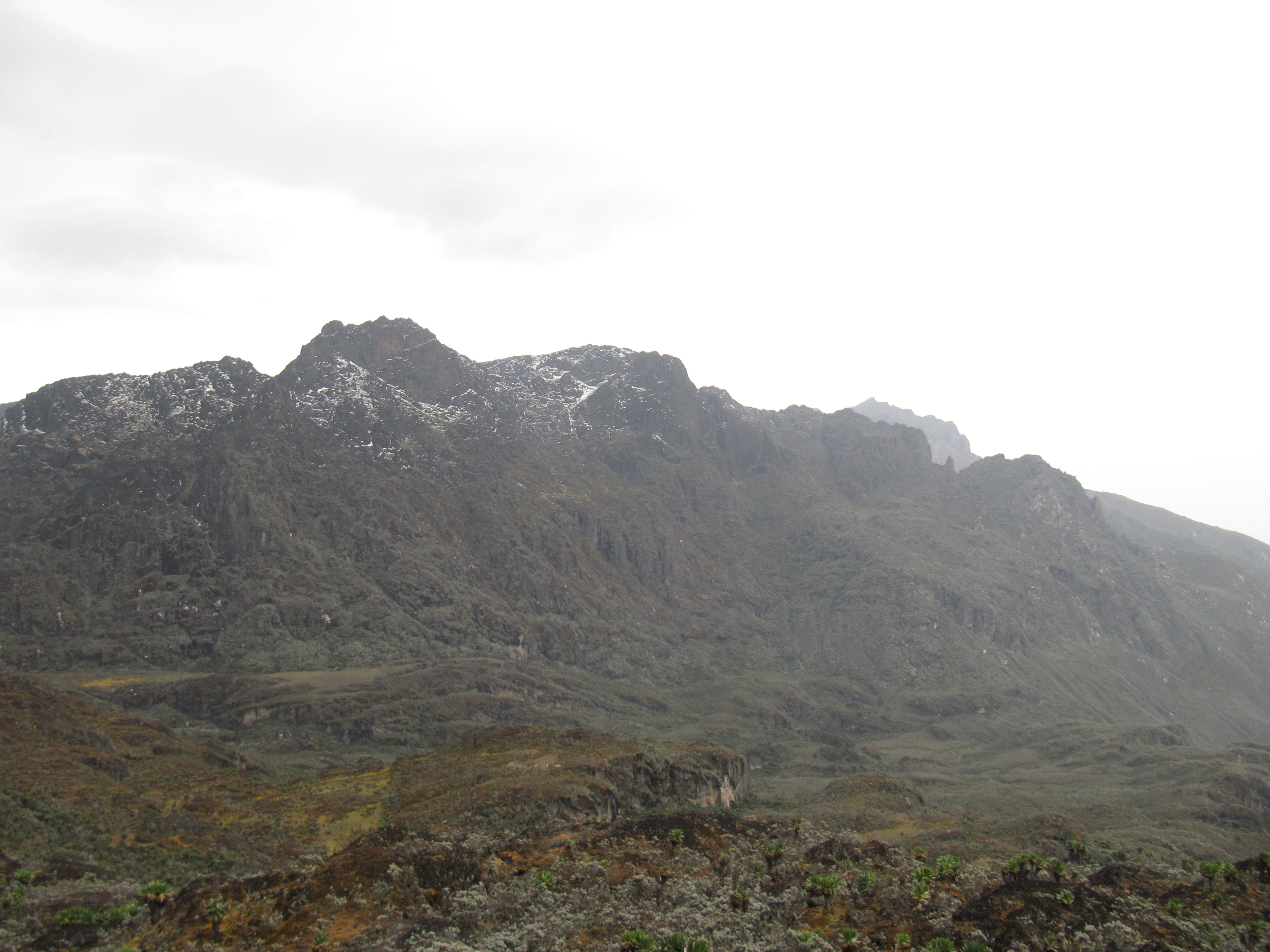 Mount Luigi di Savoia, from left to right with: Stairs Peak, Sella Peak and Weismann Peak, as seen from the South Face of Mount Baker